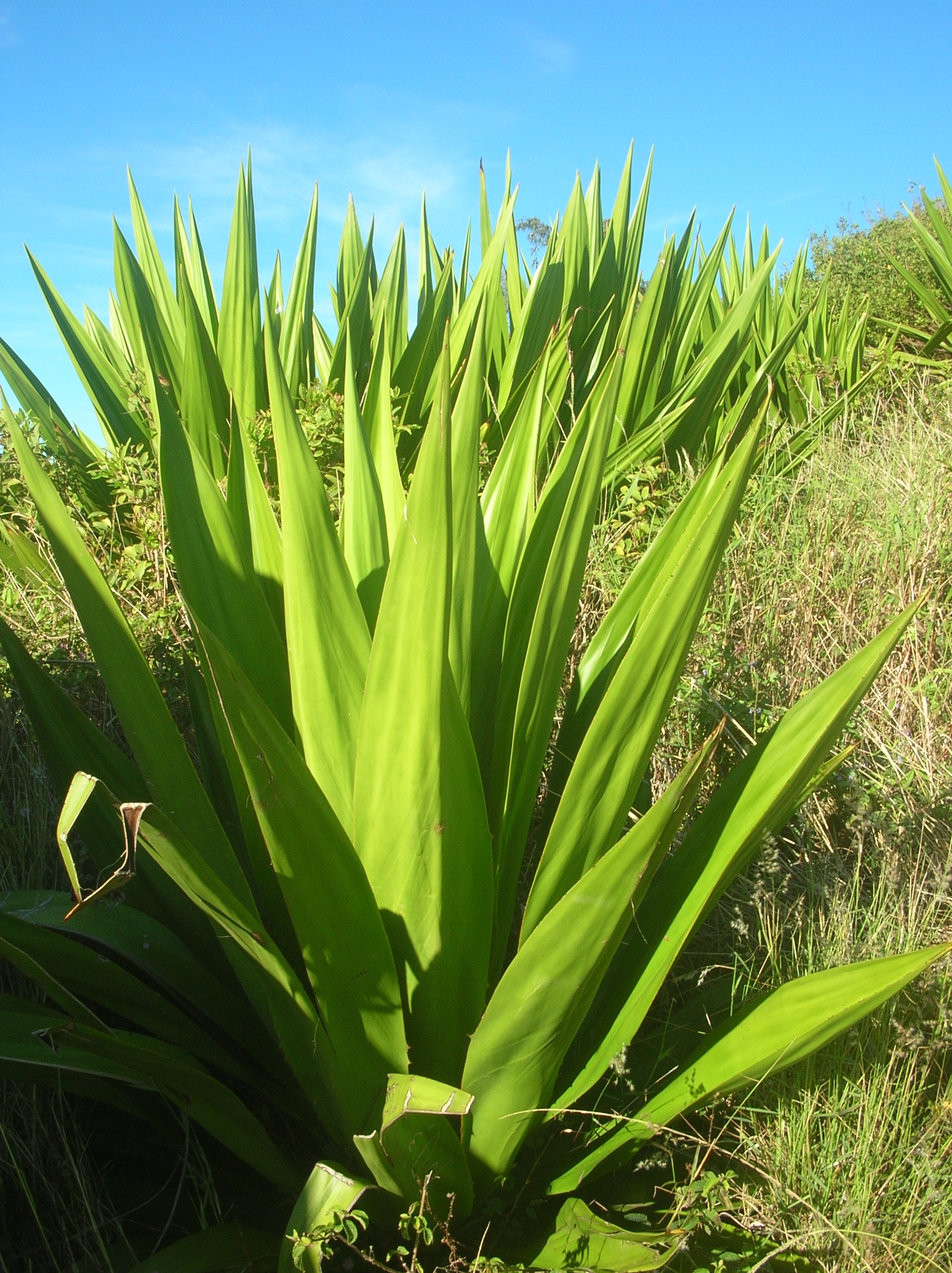 Furcraea foetida (habit). Location: Maui, Papanalahoa